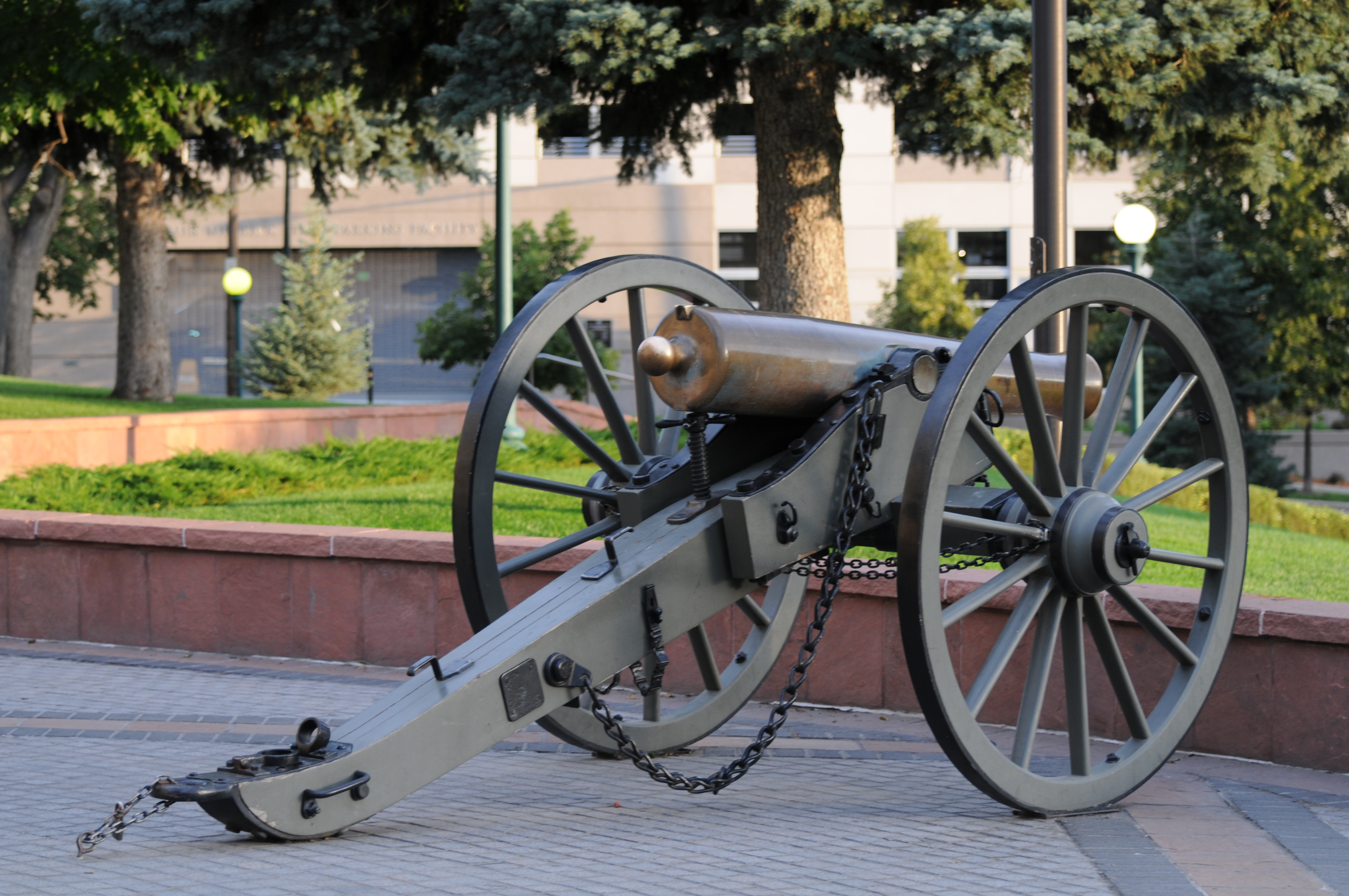 howitzer